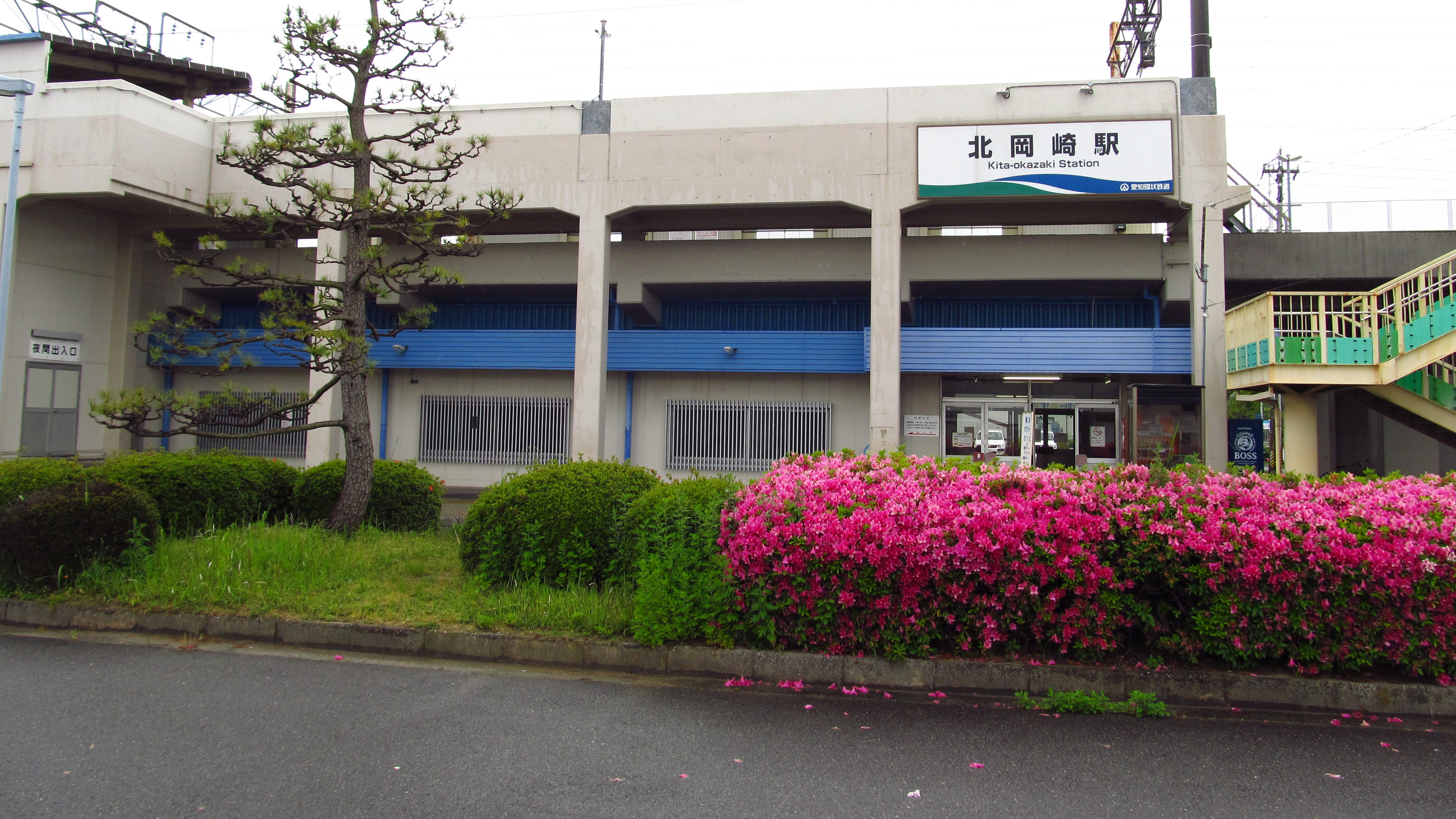 The east-side entrance to Kita-Okazaki Station on Aichi Loop Line in Okazaki city, Aichi prefecture, Japan